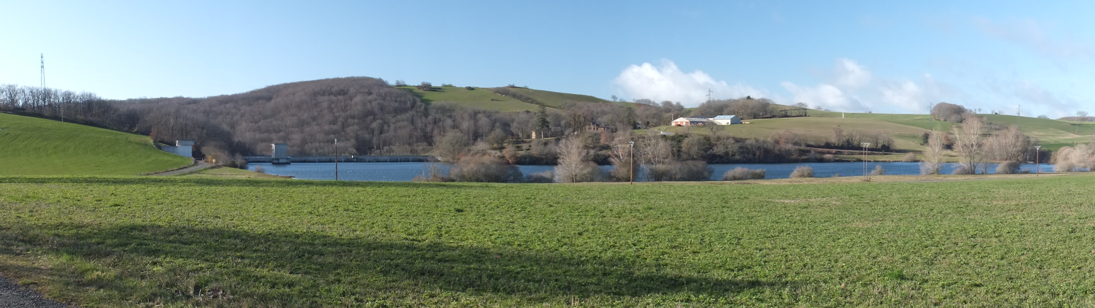 Le Truel on the Tarn Riverin Aveyron. Vista seen from the slopes of Costecalde alt 727m. Lac de Saint-Amans